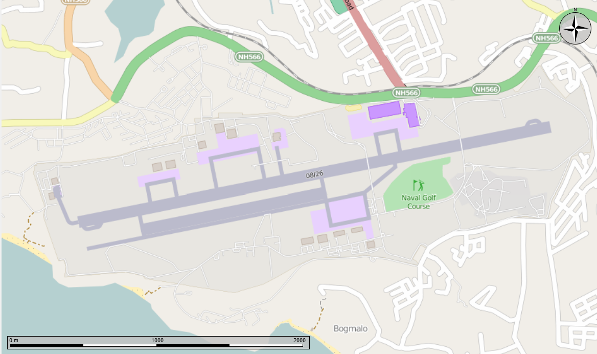 Open Street Map of the Goa International Airport, coped from the Marble program.